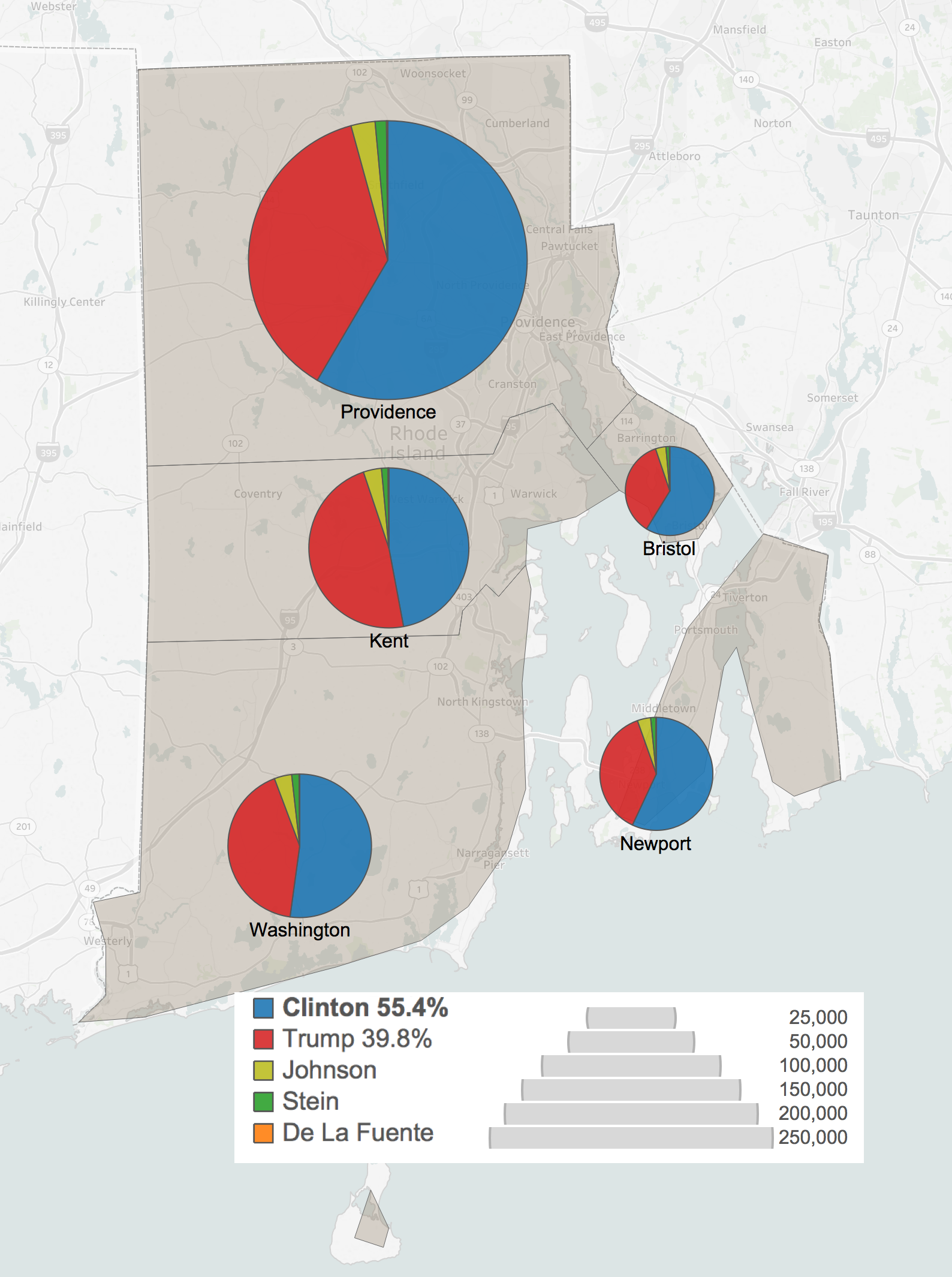 United States presidential election in Rhode Island, 2016 results by county showing number of votes by size and candidate by color. Source: 2016 Rhode Island Presidential Election Results via Associated Press. . December 13, 2016. CountyClintonTrumpJohnsonSteinDe La Fuente Bristol14,5328,91093631334 Kent37,58238,1412,9251,043131 Newport22,68014,9751,52158552 Providence141,59790,3216,7423,158361 Washington33,51127,0742,5191,05688 } Date22 December 2016SourceOwn workAuthorDennis Bratland Licensing[edit]